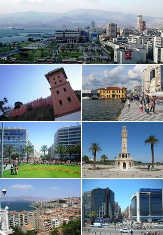 Collage of İzmir